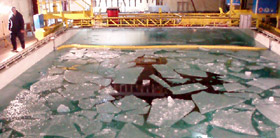 Evaluating the effectiveness of using surfactants to herd oil on ice-infested water in the refrigerated Test Basin of the Ice Engineering Facility at the U.S. Army Cold Regions Research and Engineering Laboratory. This work became notable after the Exxon Valdez oil spill.